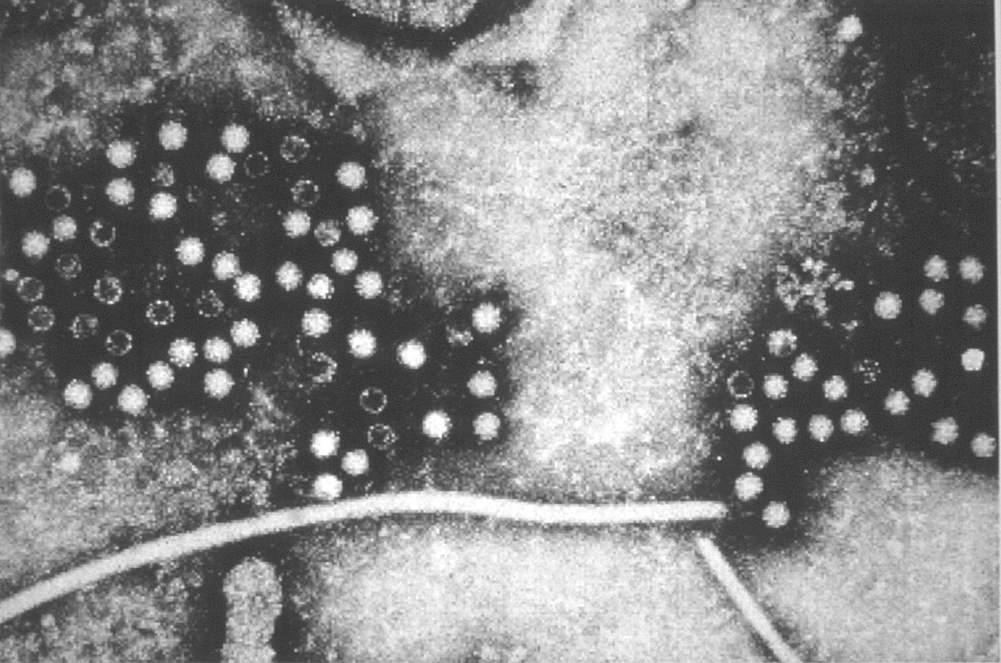 Electron micrograph of Hepatitis E viruses (HEV). Formerly a member of the Caliciviridae family, HEV are now classified as Hepeviridae. Obtained from the CDC Public Health Image Library. Image credit: CDC/ (PHIL #5605)